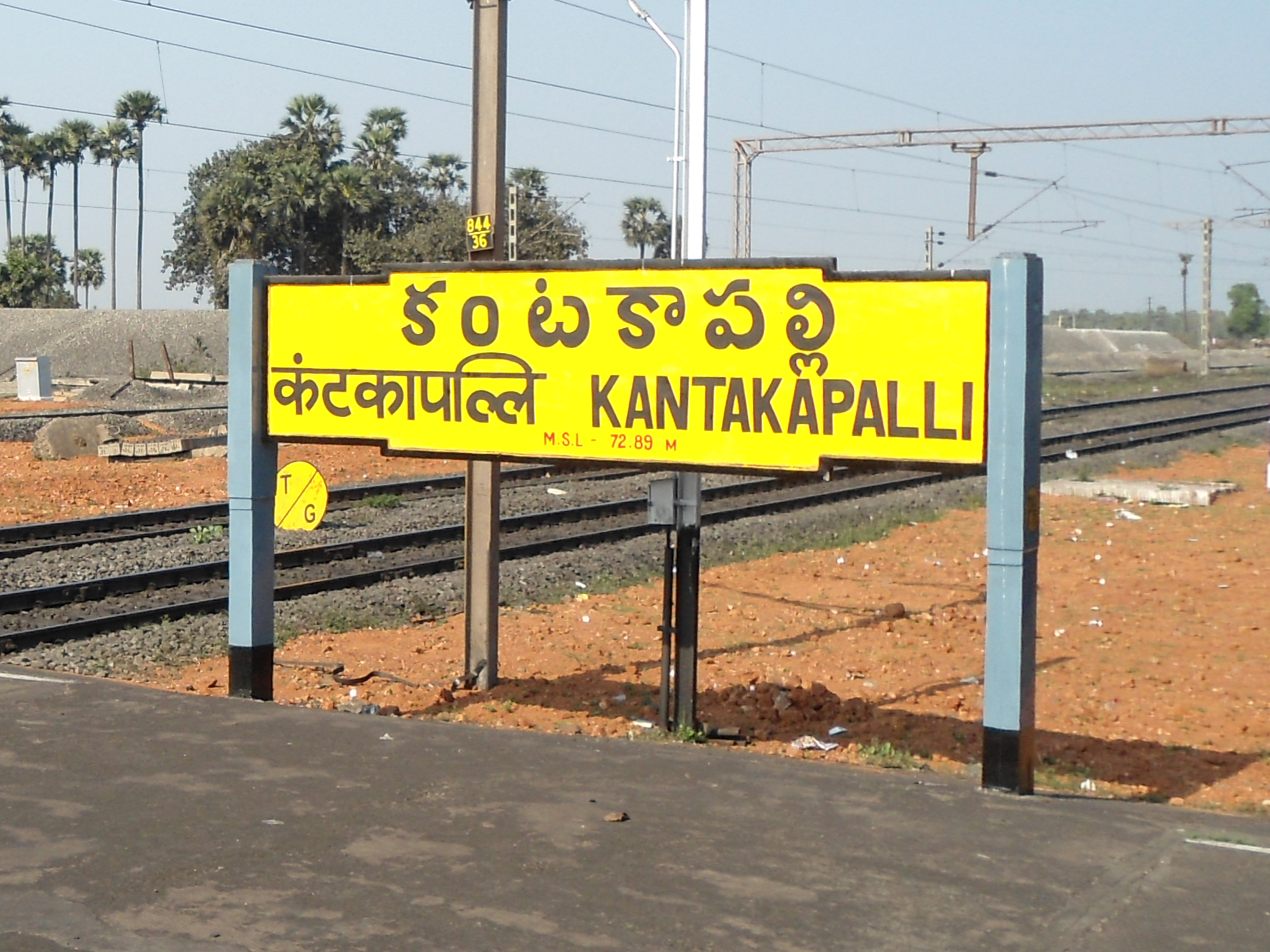 Kantakapalli railway station in Vizianagaram district